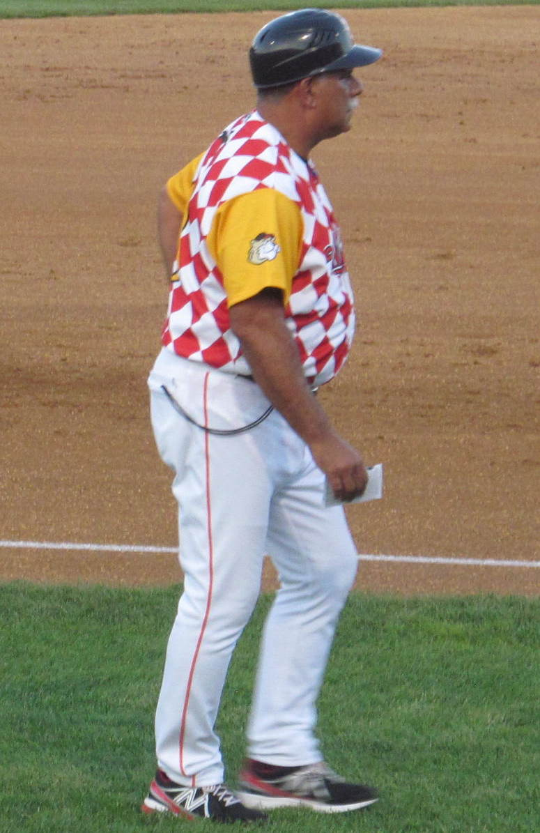 Tri-City ValleyCats vs. Vermont Lake Monsters - Joseph L. Bruno Stadium - Troy, New York - August 26, 2014